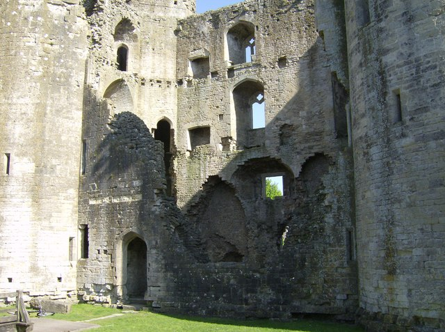 Interior of Nunney Castle Where the three floors used to be can be clearly seen in this picture.